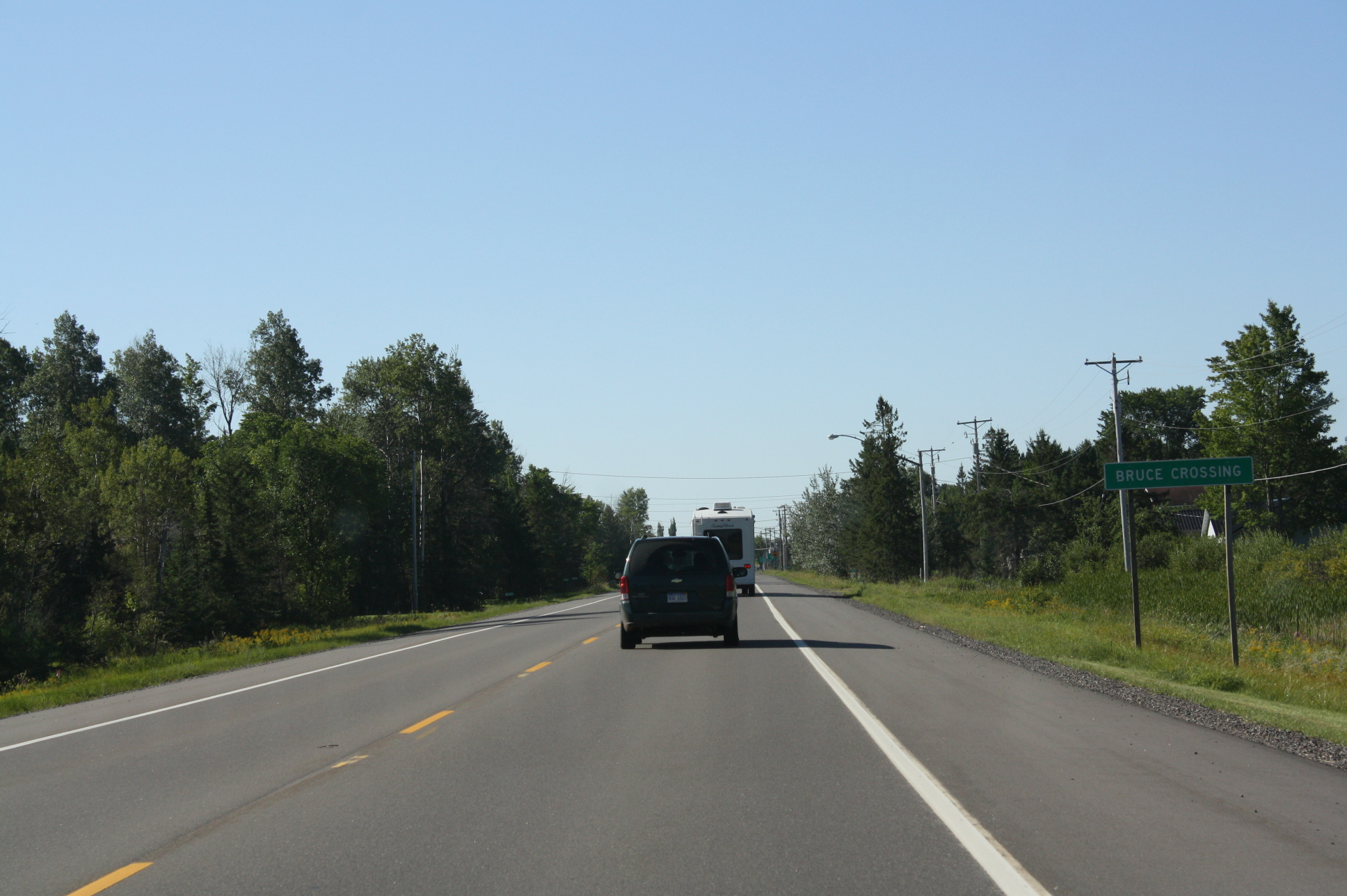 Looking south at the sign for Bruce Crossing, Michigan on U.S. Route 45.